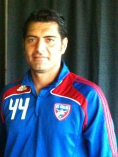 Dario Sala, soccer player